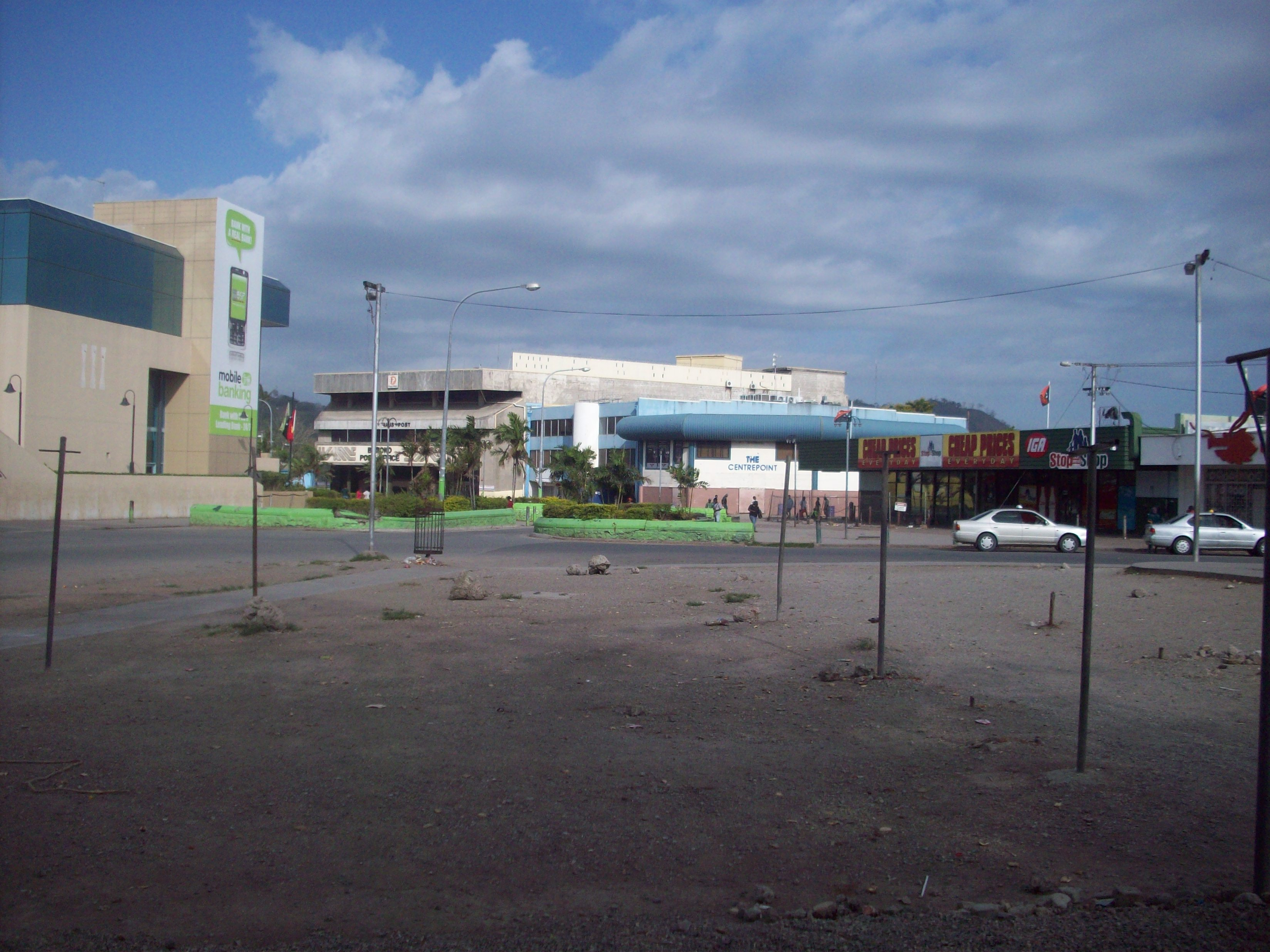 Boroko post office in downtown shopping area currently moribund.